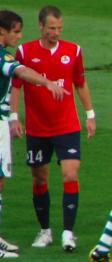 David Rozehnal (Lille vs Sporting Lisbonne)